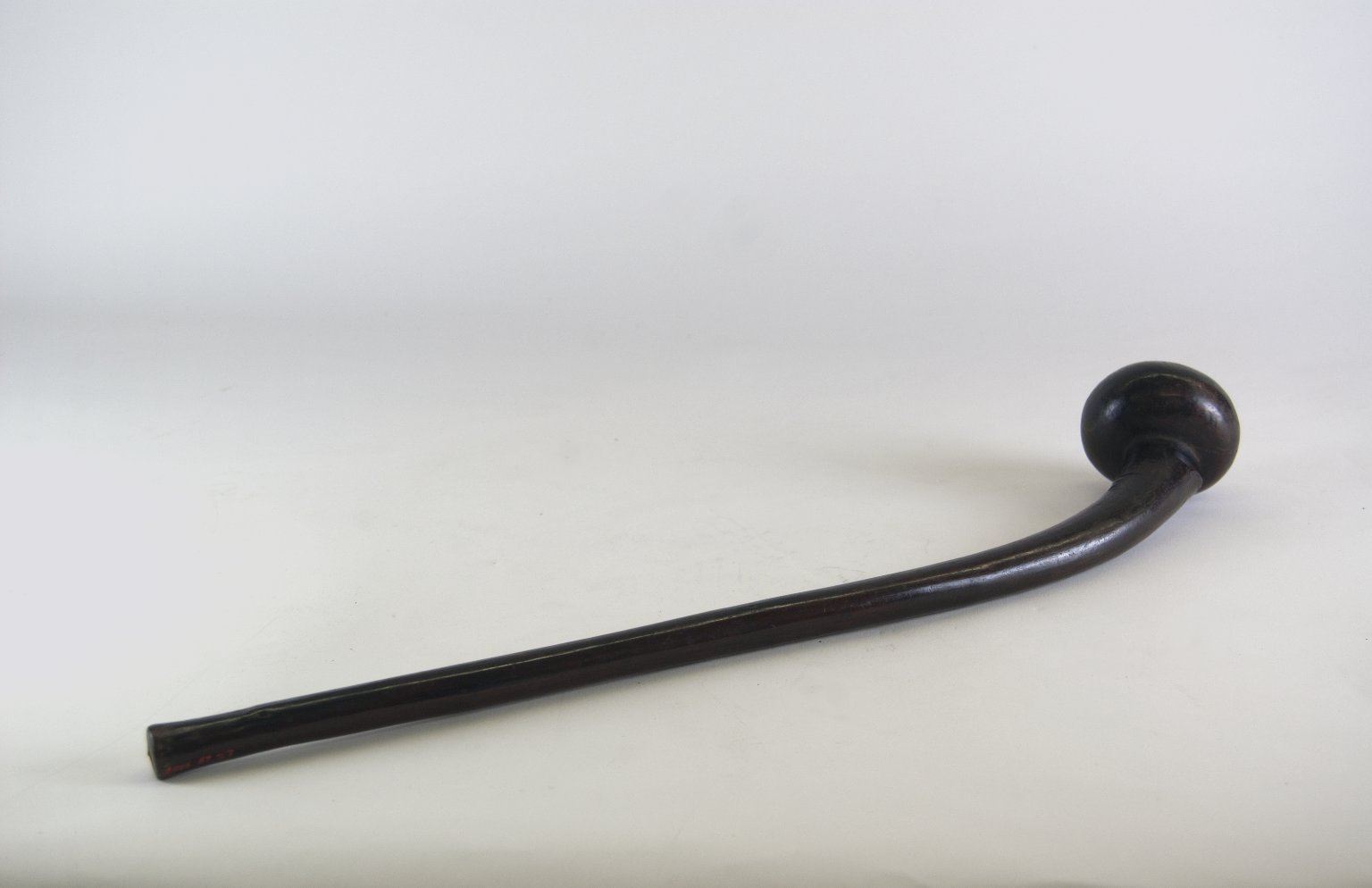 Knobkierie (Iwasa)